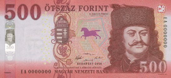 New Hungarian 500 Forints' style.